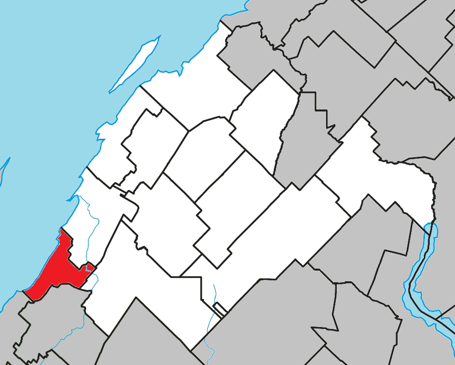 Location of Notre-Dame-du-Portage, Quebec within Rivière-du-Loup Regional County Municipality.